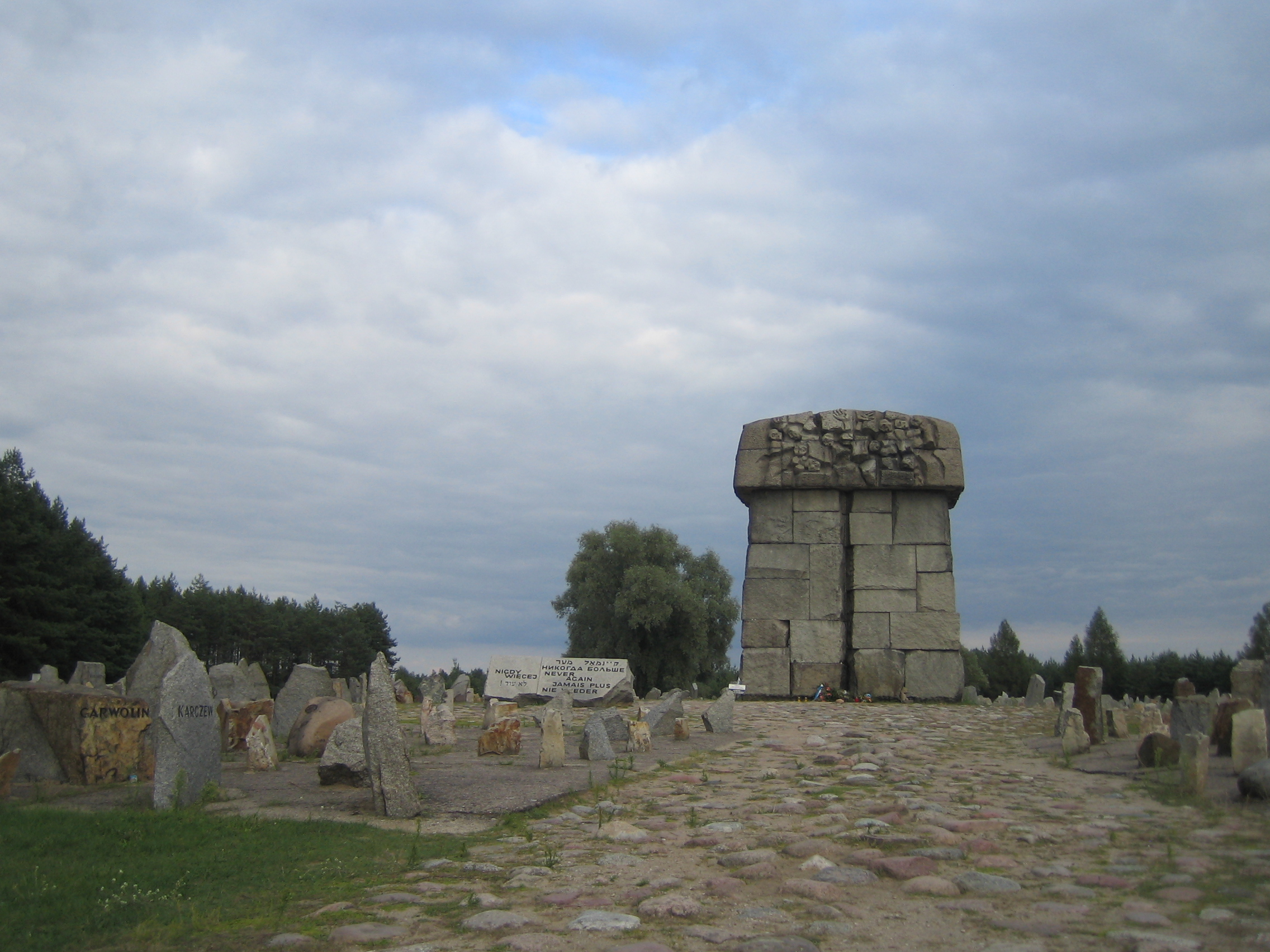 The monument in Treblinka.